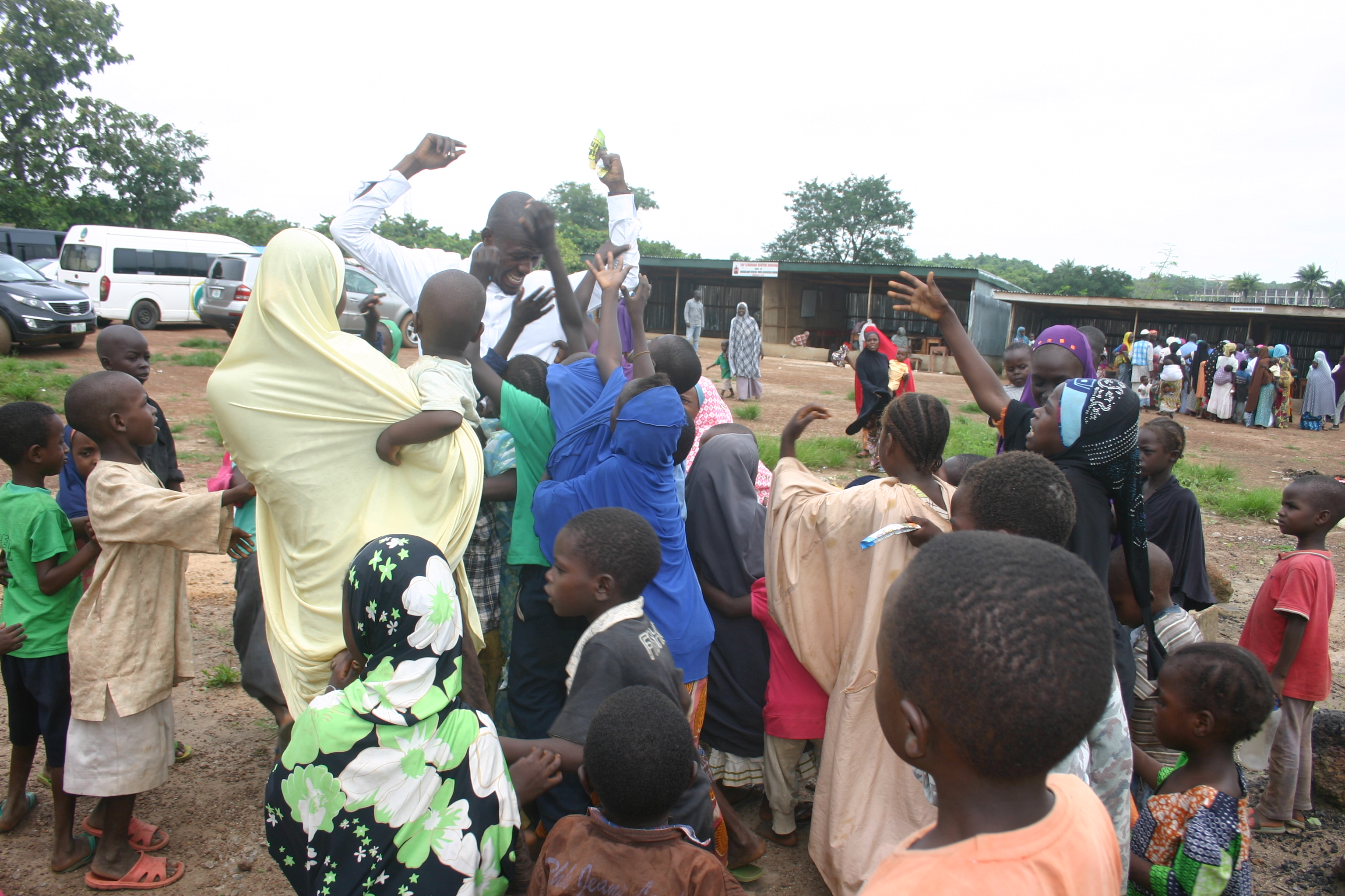 We went to Bama and Gwoza Internally Displaced People (IDP) Camp at Durumi, Area 1, Abuja to give them drugs, medical check-ups and counseling with 5 Medical Doctors. A short story on how the journey went; As we got there, we started calling the women and children, as their men has gone out for work. At first, they refused to come for reason best known to them. After some time, some women began to come but the turn up was still low. At that moment, we were yet to fathom why they were dragging foot to come and collect free drugs. Until I met a little boy, his name is Ali, he was like the leader of the little lads. It was him that gave me the idea that we should get them food instead of drugs. That was how the idea of food for drugs came into our mind. Collect your drugs before we give you food, simple. Before we could know it, the little Ali has already mobilized almost all the children in the camp and the women simply because we provided food as incentives until we were overwhelmed. It even got to a point where they drag the food from our hands due to extreme starvation.